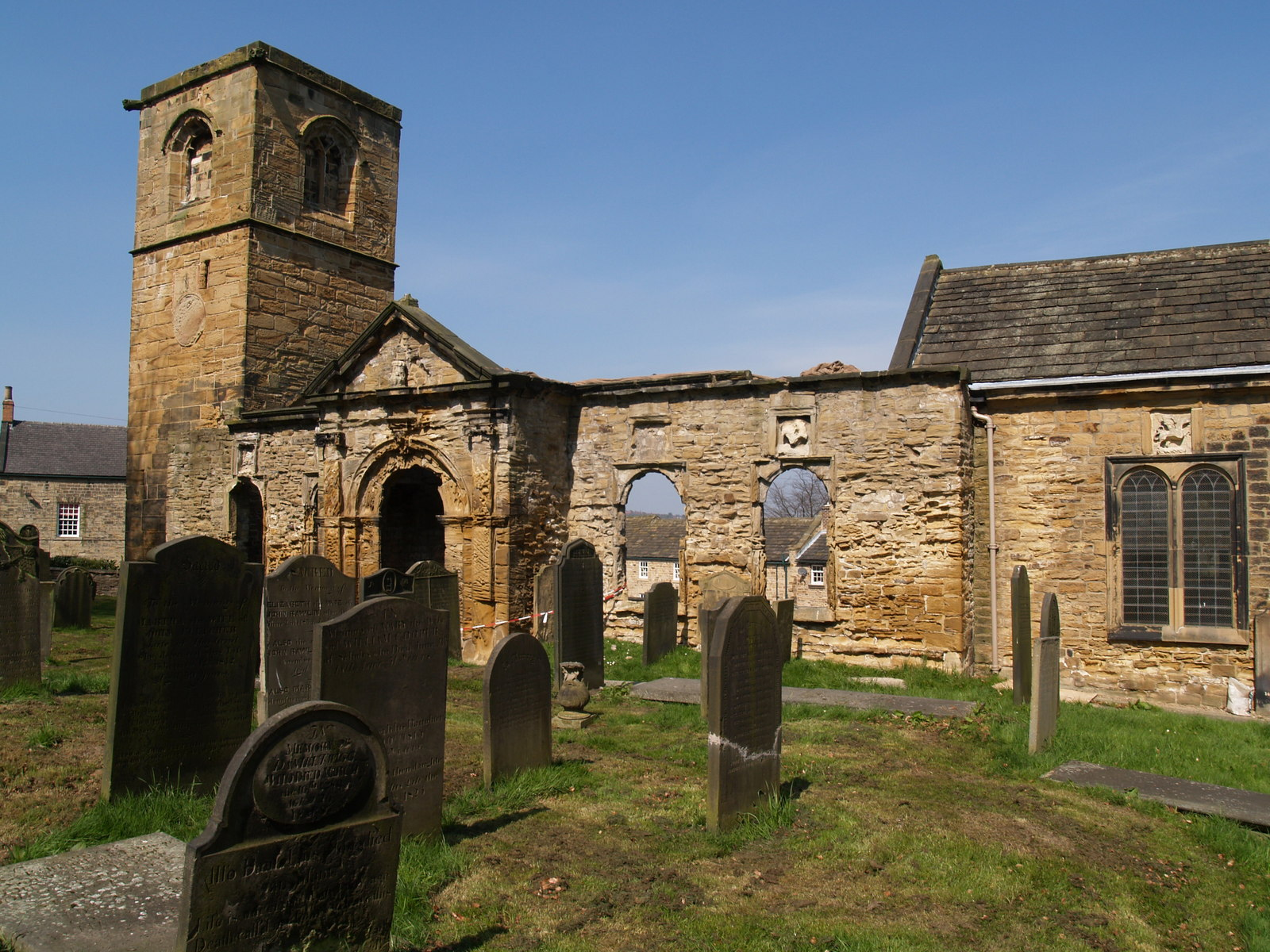 Part of the ruin of Holy Trinity old church, Wentworth, South Yorkshire, seen from the southeast